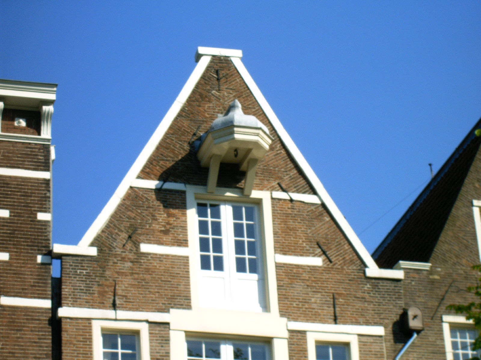 Façade hoisting hook in Amsterdam.